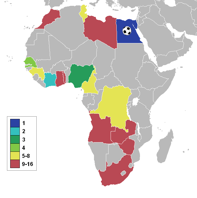 Countries positions in the 2006 African Cup of Nations 1st 2nd 3rd 4th 5th-8th 9th-16th Football denotes host nation (Egypt)